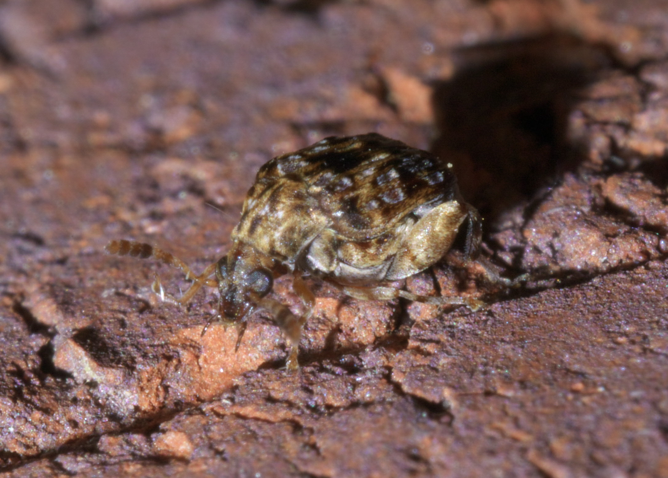 Gibbobruchus mimus, Redbud Bruchid, ID Confidence: 92